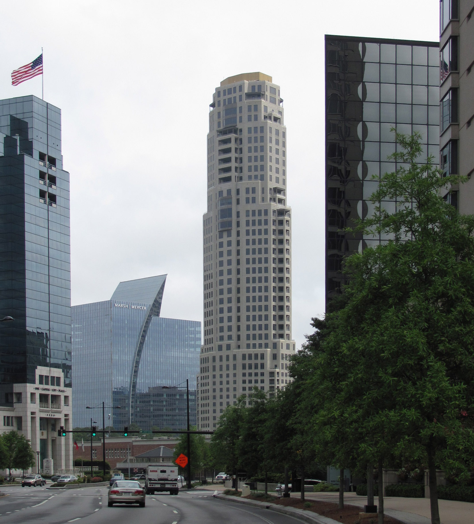 The Mansion on Peachtree, Buckhead Georgia, May 2010